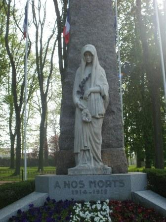 The monument aux morts at Villers-Bretonneux in the Somme region.